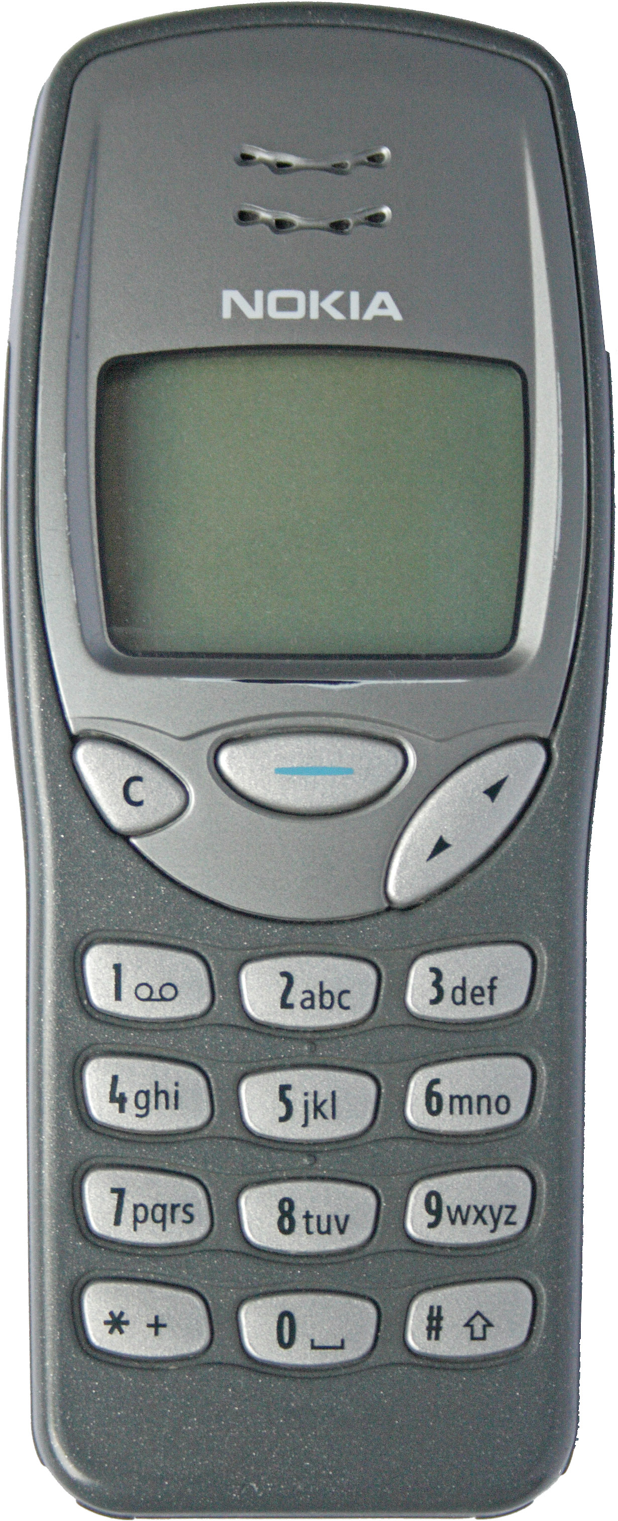 Photo of a used Nokia 3210 mobile phone.